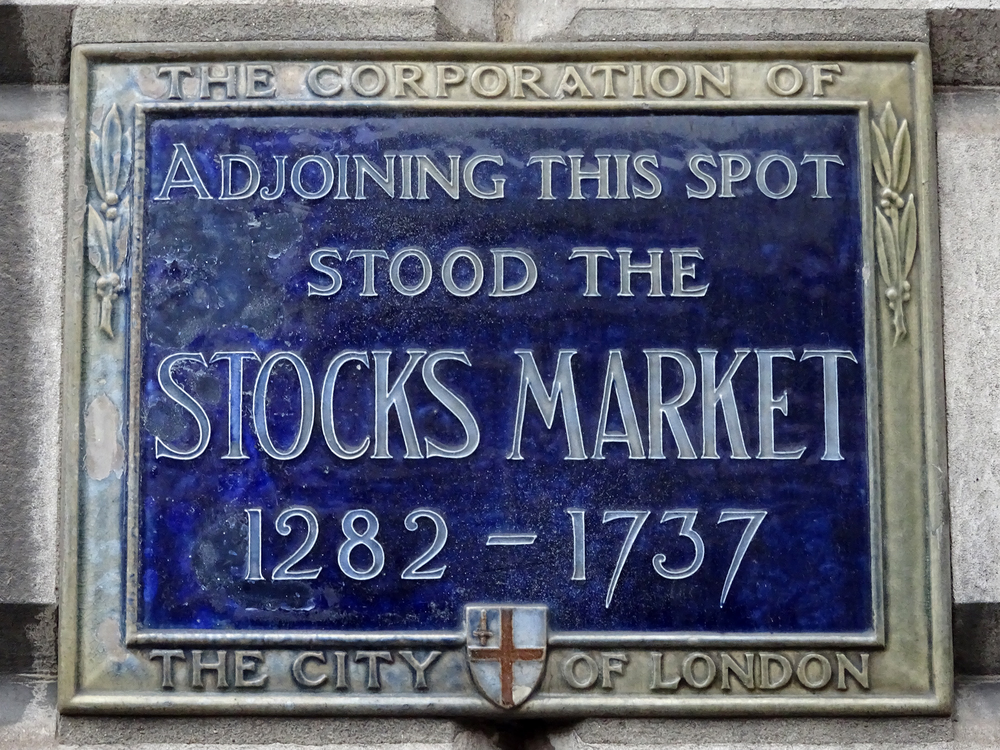 Blue plaque erected by The Corporation of the City of London at Mansion House, Walbrook, London EC4N 8BH